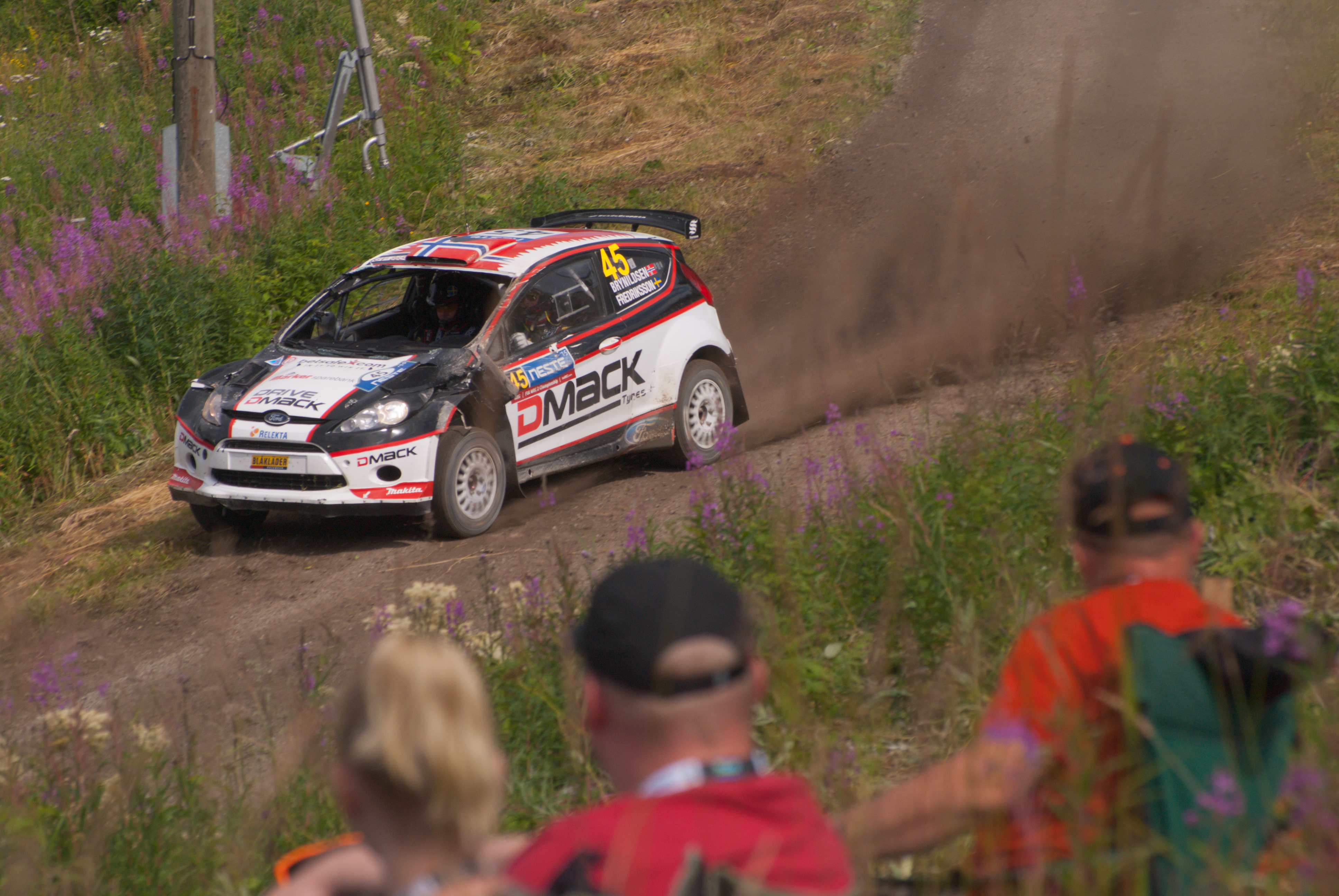 Photos from 2015 Rally Finland / SS5 Himos 1.